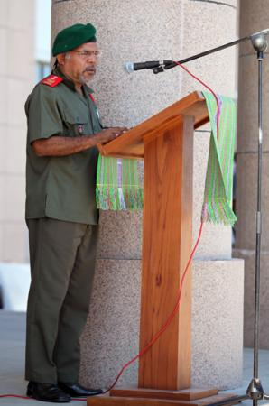 Major Gen. Lere Anan Timor, commanding general, Timor-Leste Defense Force, presents his opening remarks during the opening ceremony of Exercise Crocodilo 2012, a bilateral training exercise designed to build upon the existing partnership of the two countries. Crocodilo 12 aims to promote interoperability and cooperation between the participating forces, providing the opportunity to exchange knowledge and learn from each other, as well as to establish personal and professional relationships. Marines and sailors of the 15th MEU and the Peleliu Amphibious Ready Group will conduct military training with the Timor-Leste Defense Forces and assist in humanitarian efforts to improve the medical and dental health of the local population